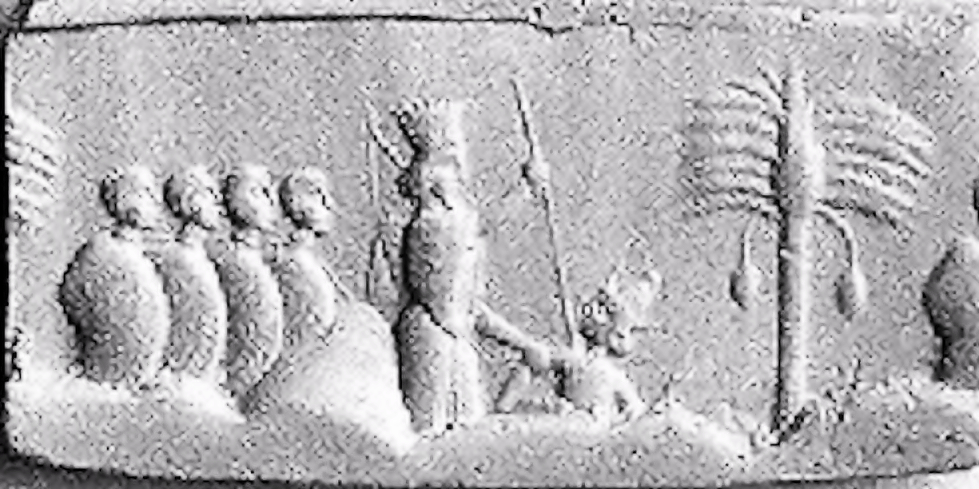 Achaemenid king killing enemy